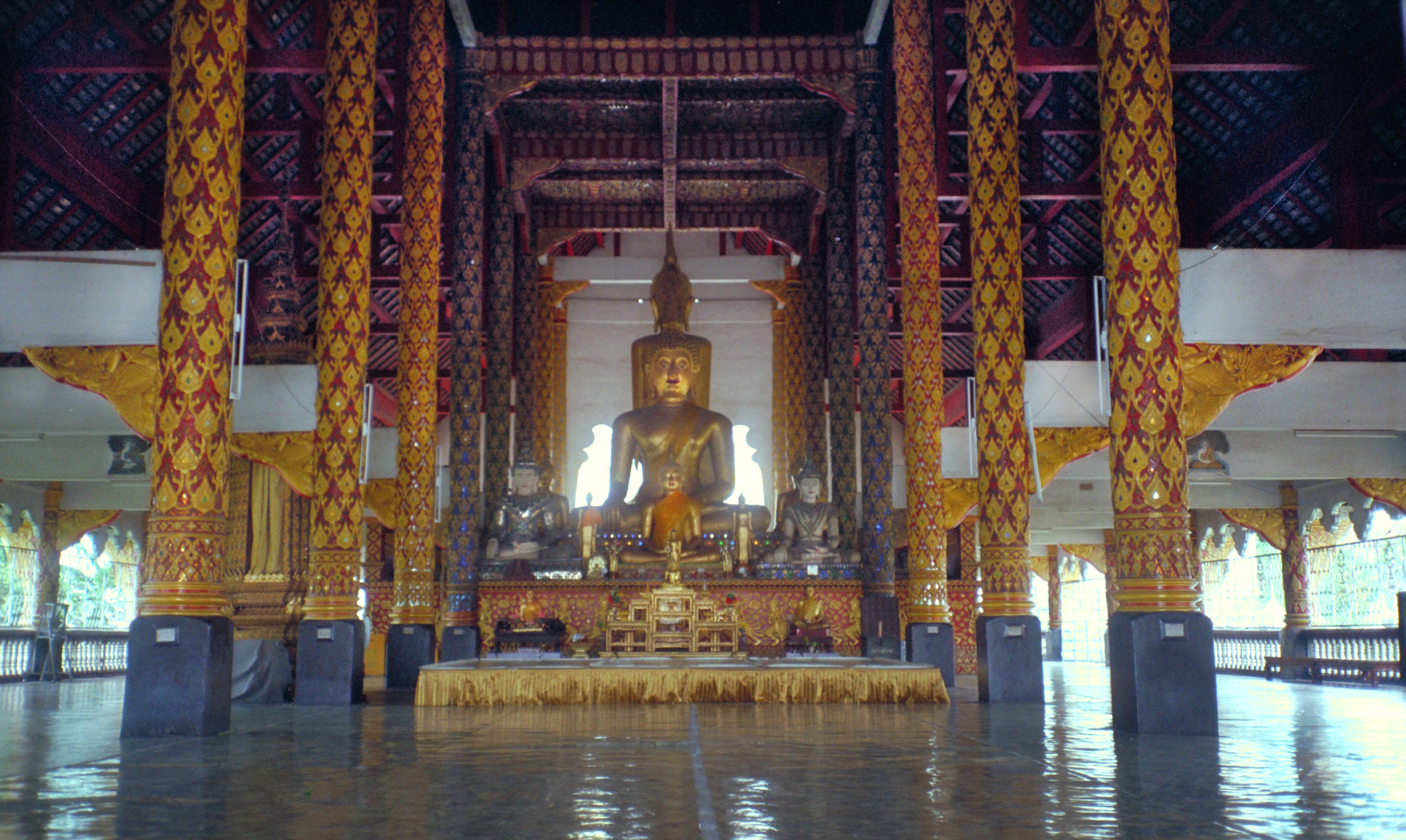 Sala Kan Parian of Wat Suan Dok, Chiang Mai, northern Thailand